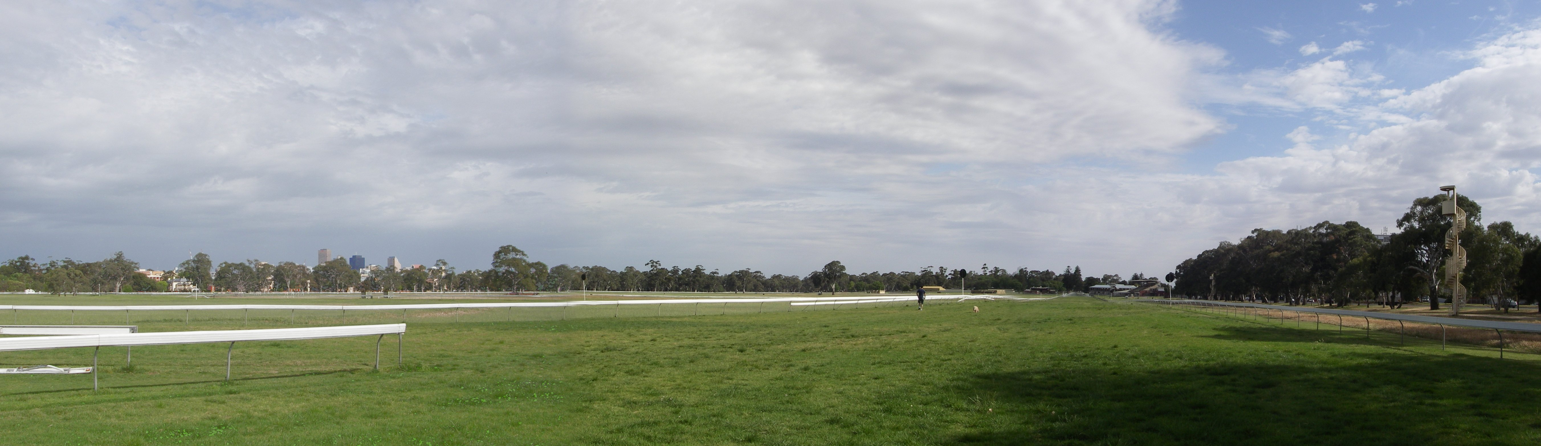 Victoria Park Racecourse, looking north down the home straight towards the finish line. The Adelaide CBD skyline is visible to the left of the picture.